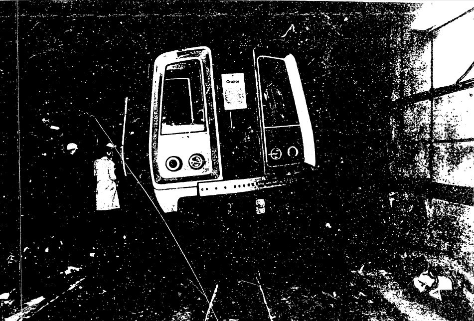 Derailed Metrorail car after the 1982 Smithsonian derailment